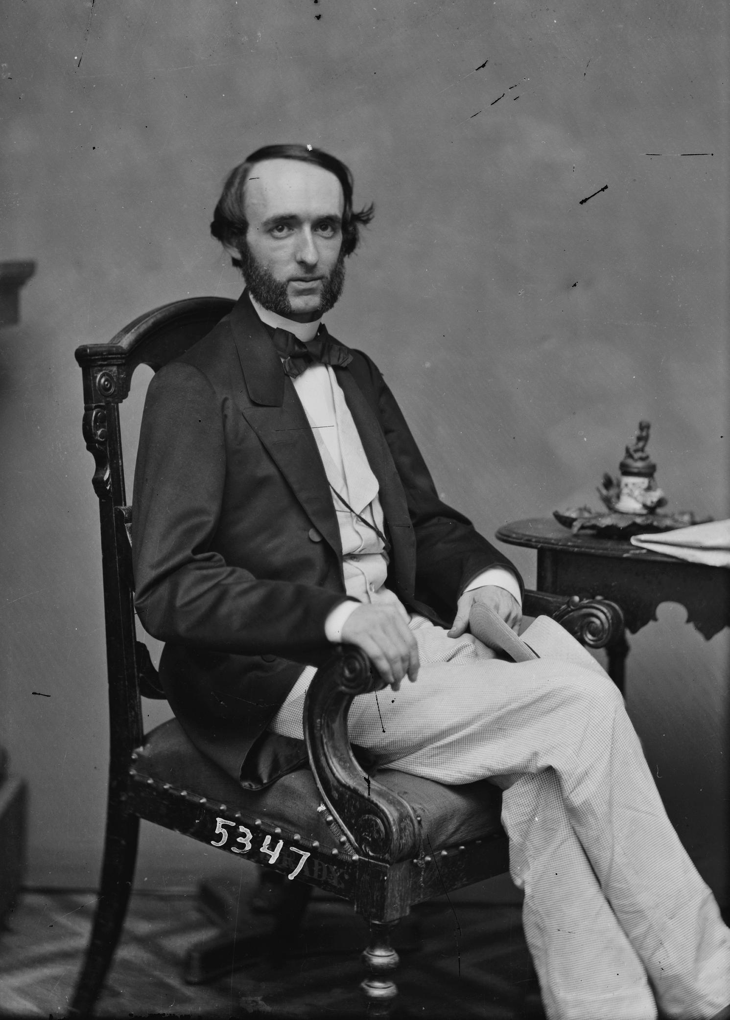 Frederick W. Seward. Library of Congress description: "F. W. Seward, (Son of W.H. Seward)"